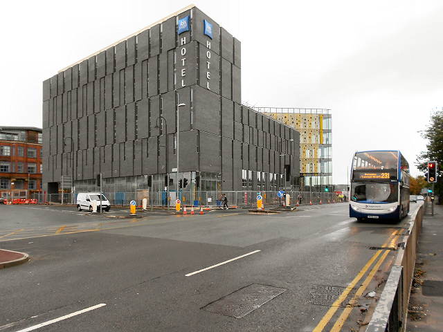 Manchester, Great Ancoats Street. The new Ibis hotel at the corner of Pollard Street and Great Ancoats Street.